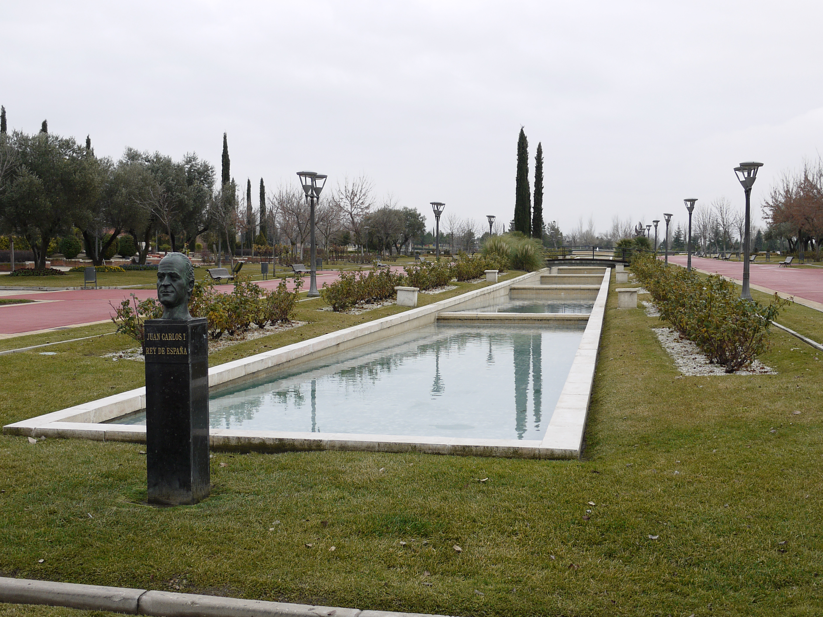 Parque Juan Carlos I, at entrance, Pinto, Madrid, Spain